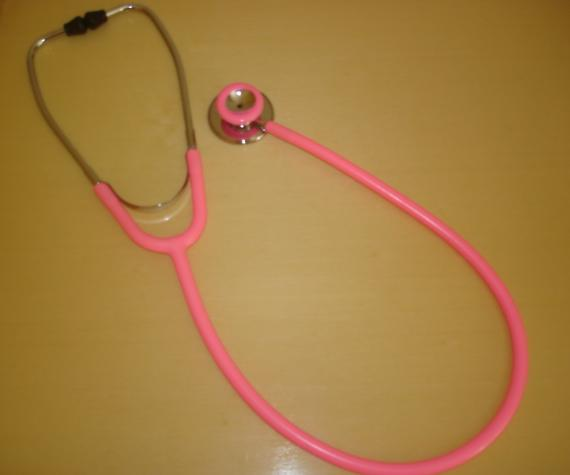 Stethoscope pink - Sarah Edmundson's